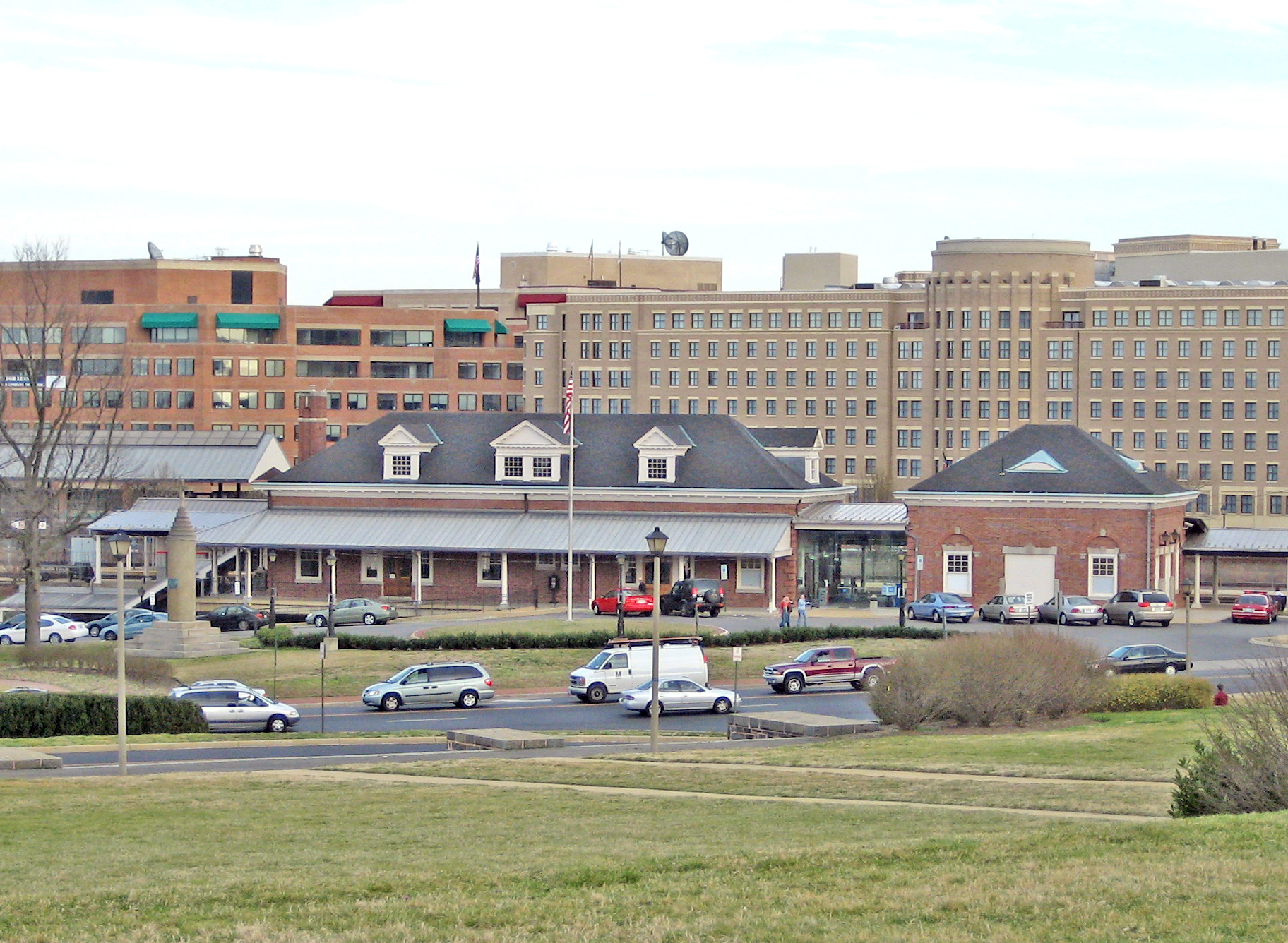 Western exterior of the Alexandria, Virginia Union Station.